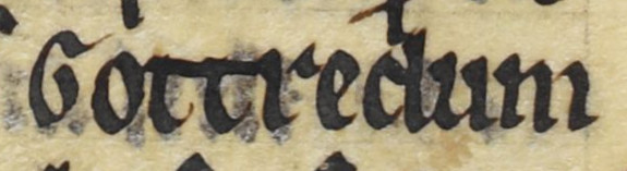 An excerpt from folio 46v of British Library Royal MS 13 B VIII (Expugnatio Hibernica) showing the name of Guðrøðr Óláfsson, King of the Isles (died 1187).